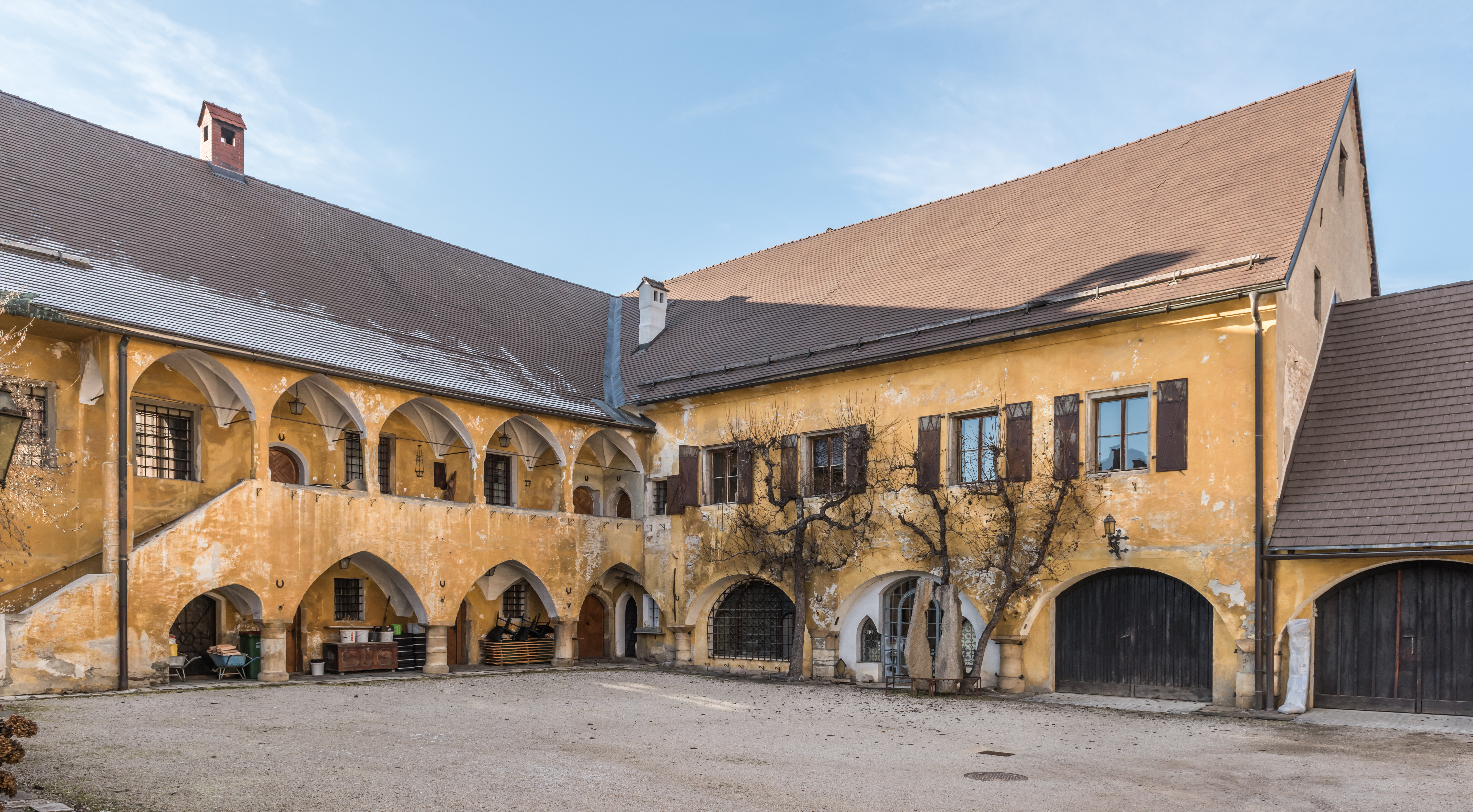 Residential wing of the dukes` castle on Burggasse #9, city of St. Veit an der Glan, Carinthia, Austria, EU